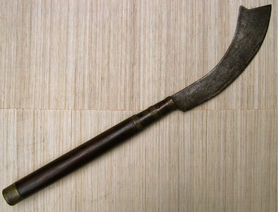 This Philippine blade is from the lumad people in Mindanao in southern Philippines. Lumad refers to the indigenous non-Christian and non-Muslim peoples of Mindanao. The blade is called panabas. The term literally means 'chopping device' in the local dialects. The blade is used both as a weapon and as a device in chopping off body parts in the meting out of justice. The example panabas has brass ferrule with anthropomorphic design. Close-up shots of said design can be seen here and here. Muslims are prohibited to make representations of humans and as such, anthropomorphic designs cannot be found in Moro weapons. Overall length: 622 mm (24 1/2 inches); Blade length: 260 mm (10 1/4 inches); Maximum blade thickness: 8 mm (5/16 inch) Another example of a lumad panabas is here. Other uploaded materials by the same author are here: (a) Luzon weapons; (b) Visayan weapons; (c) Moro weapons; and (d) Lumad (non-Moro Mindanao) weapons